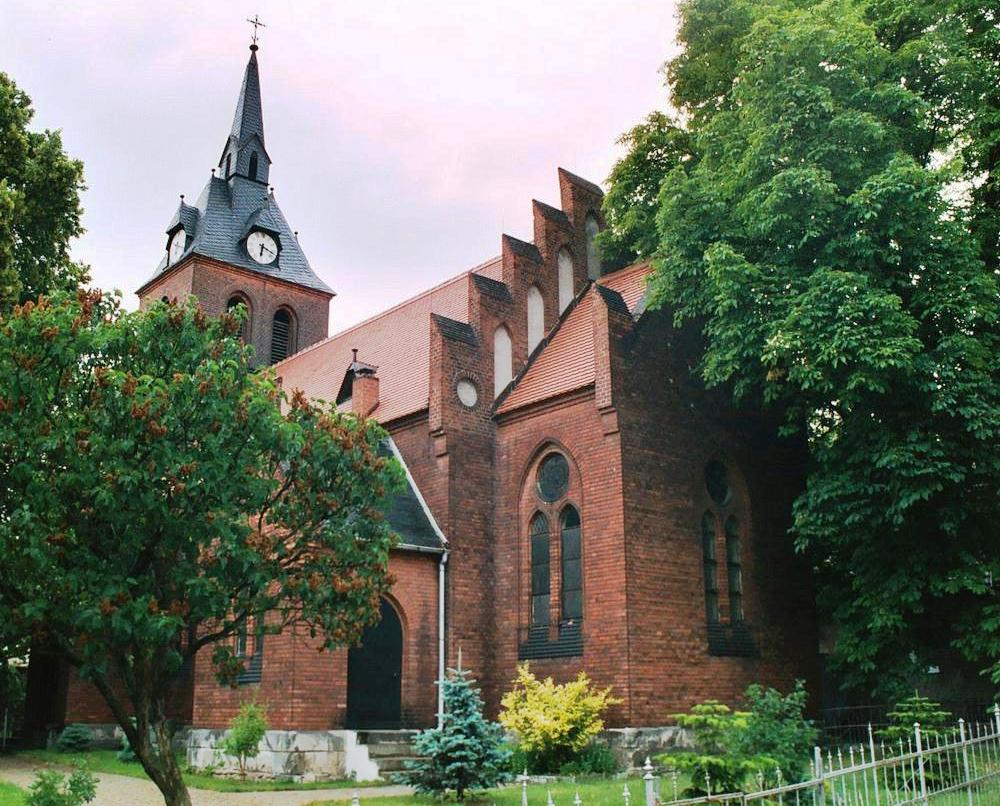 Zens (Bördeland), village church St.Stephan (south-east view